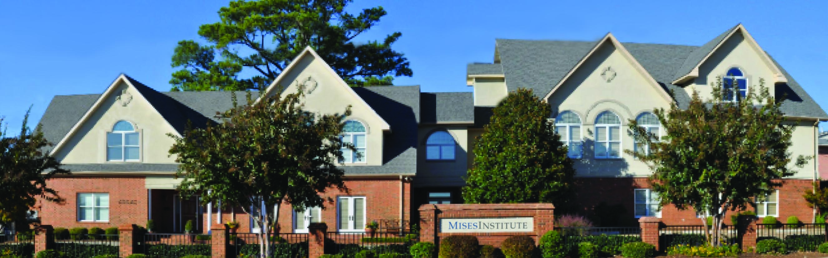 Panoramic of Mises Campus, the headquarters of the Mises Institute. Auburn, Alabama, USA.